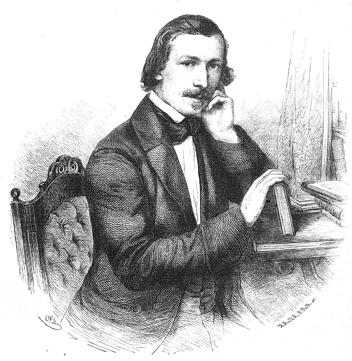 caption: "Otto Ule."